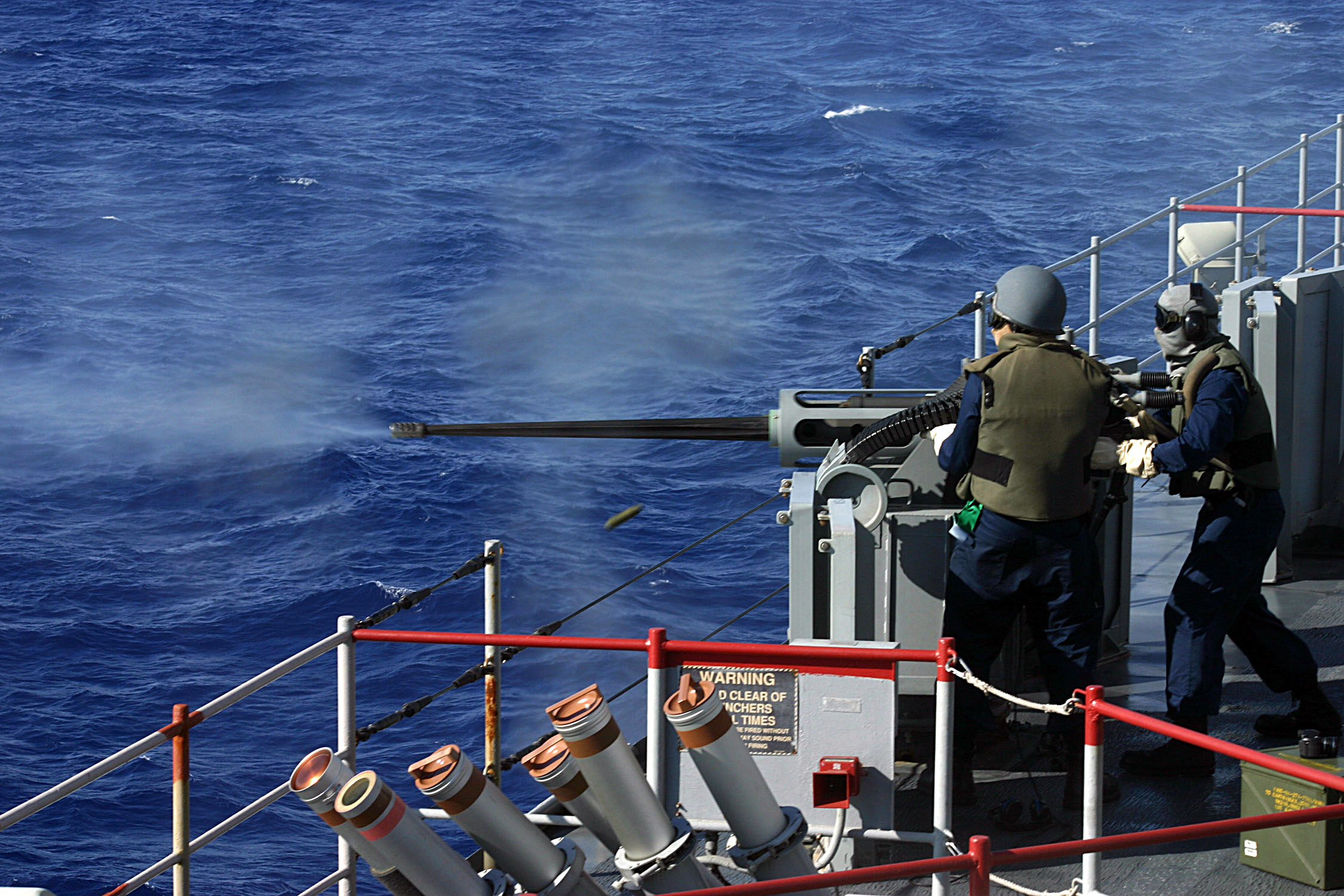 South China Sea (May 24, 2005) - Gunner's Mate 2nd Class Gene A. Carroll fires a MK-38 25mm machine gun off the starboard bow of USS Fort McHenry (LSD 43), during a live fire demonstration. Fort McHenry is currently underway in support of exercise Southeast Asia Cooperation Against Terrorism (SEACAT) 2005. SEACAT is designed to establish regional coordination in support of a cooperative response to terrorism and transnational crime at sea. U.S. Navy photo by Journalist 3rd Class David J. Ham (RELEASED)